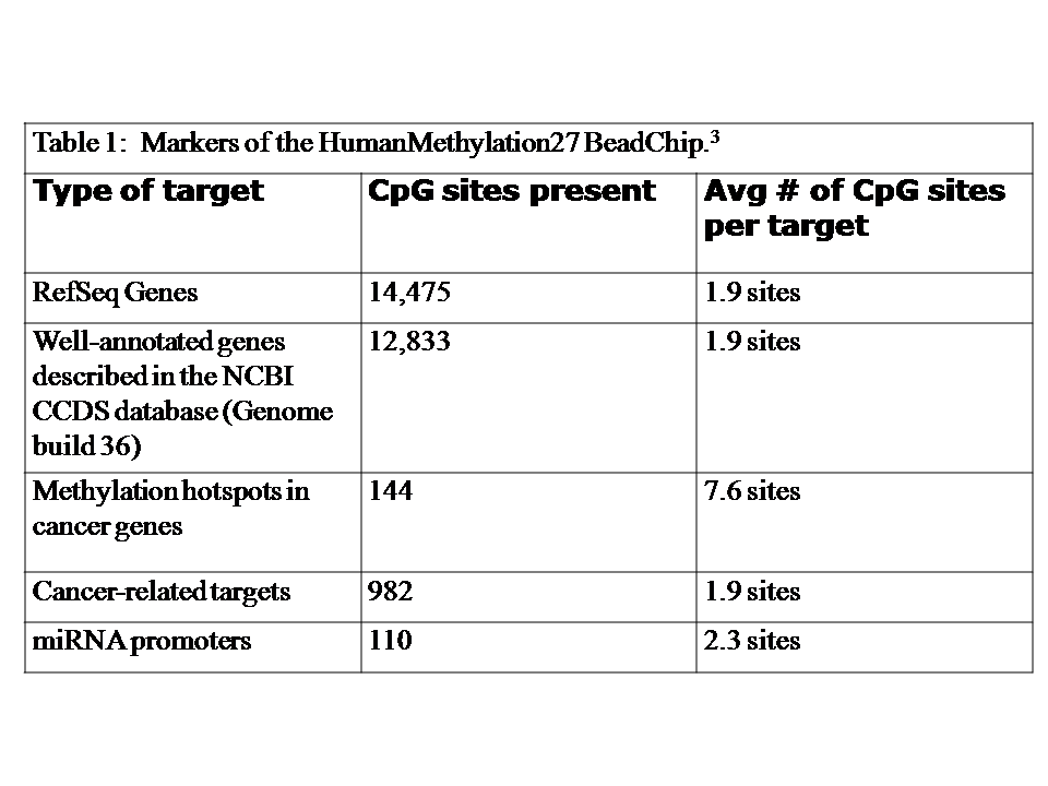 Table 1. Methylation BeadChip Statistics with Infinium Platform